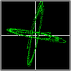 Radioteletype (RTTY) Tuning Indicator Display. The indicator shows reception of Frequency Shift Keyed (FSK) signal, an amateur 170 Hz shift, 45 baud transmission. The receiver is tuned slightly off frequency, causing the pattern to rotate away from the X-Y axes.